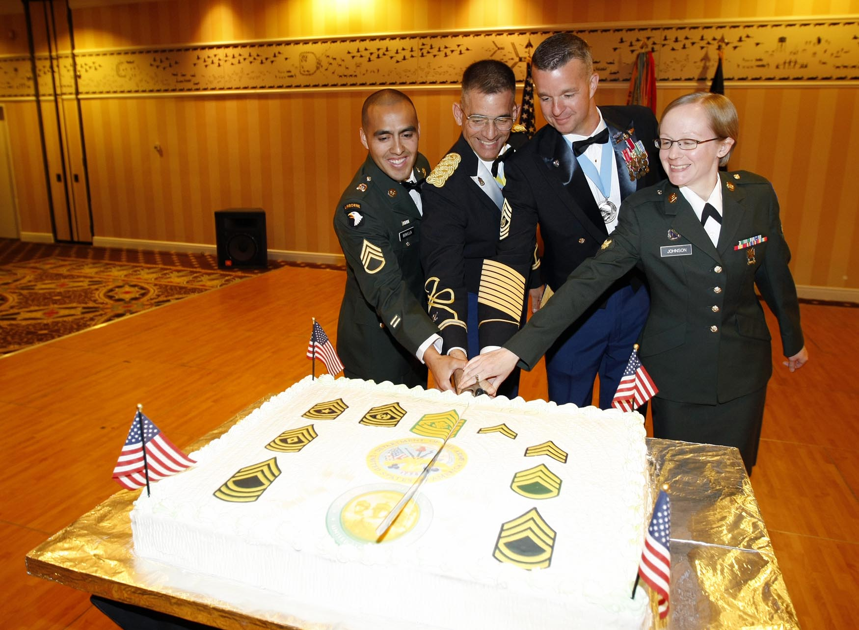 Cutting the Army Birthday cake at the 2009 Army All Ranks Birthday Ball are U.S. Army Alaska NCO of the Year, Staff Sgt. Neftali Bonilla; USARAK Deputy Commander, Col. Edward Daly; USARAK Command Sgt. Maj. David Turnbull; and USARAK Soldier of the Year, Spc. Jill Johnson. Photo credit: Staff Sgt. Ryan Creel. Read more of Alaska soldiers celebrate Army's 234th Birthday on